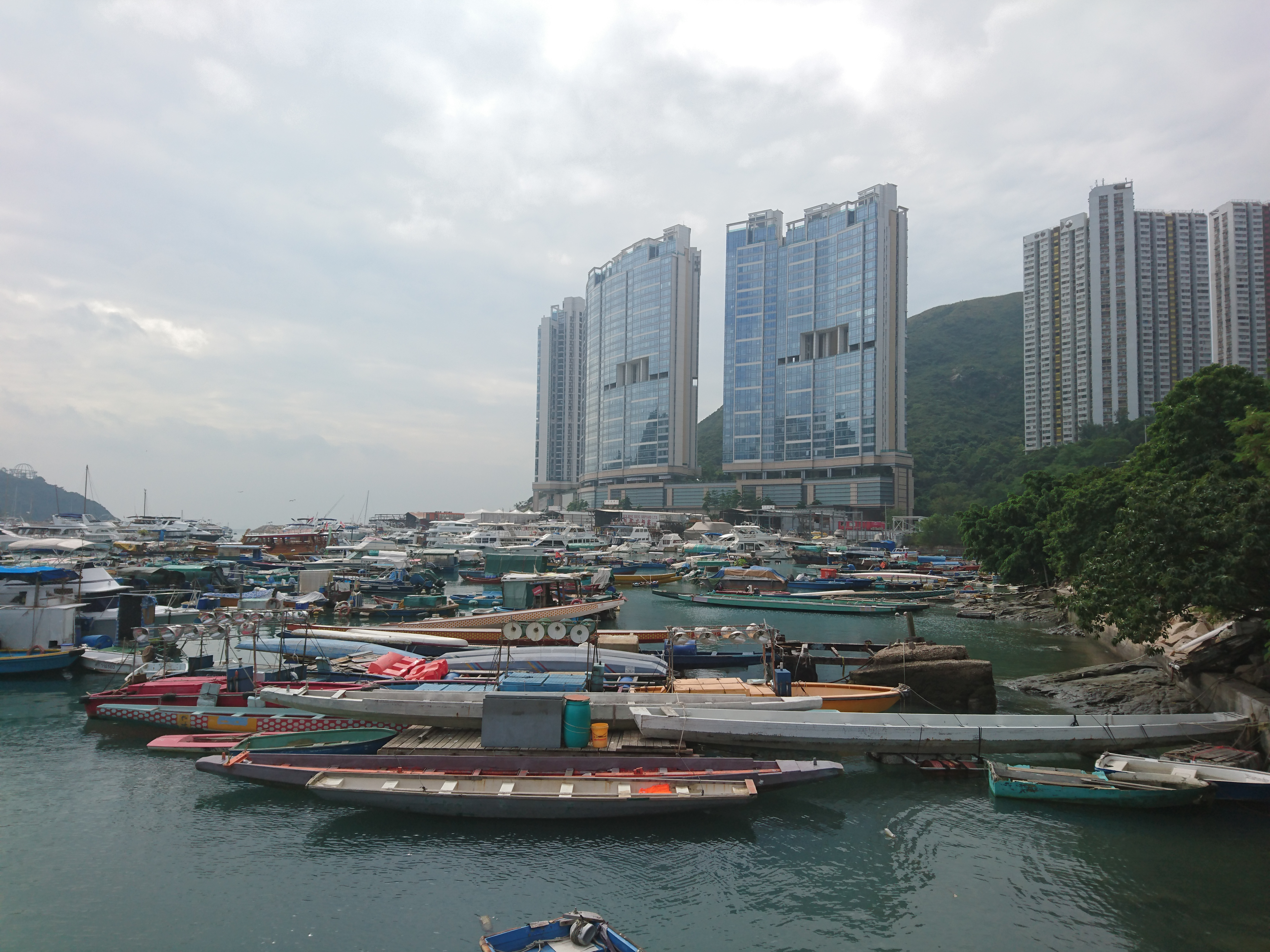 Aberdeen Typhoon Shelter near Ap Lei Chau East Coast